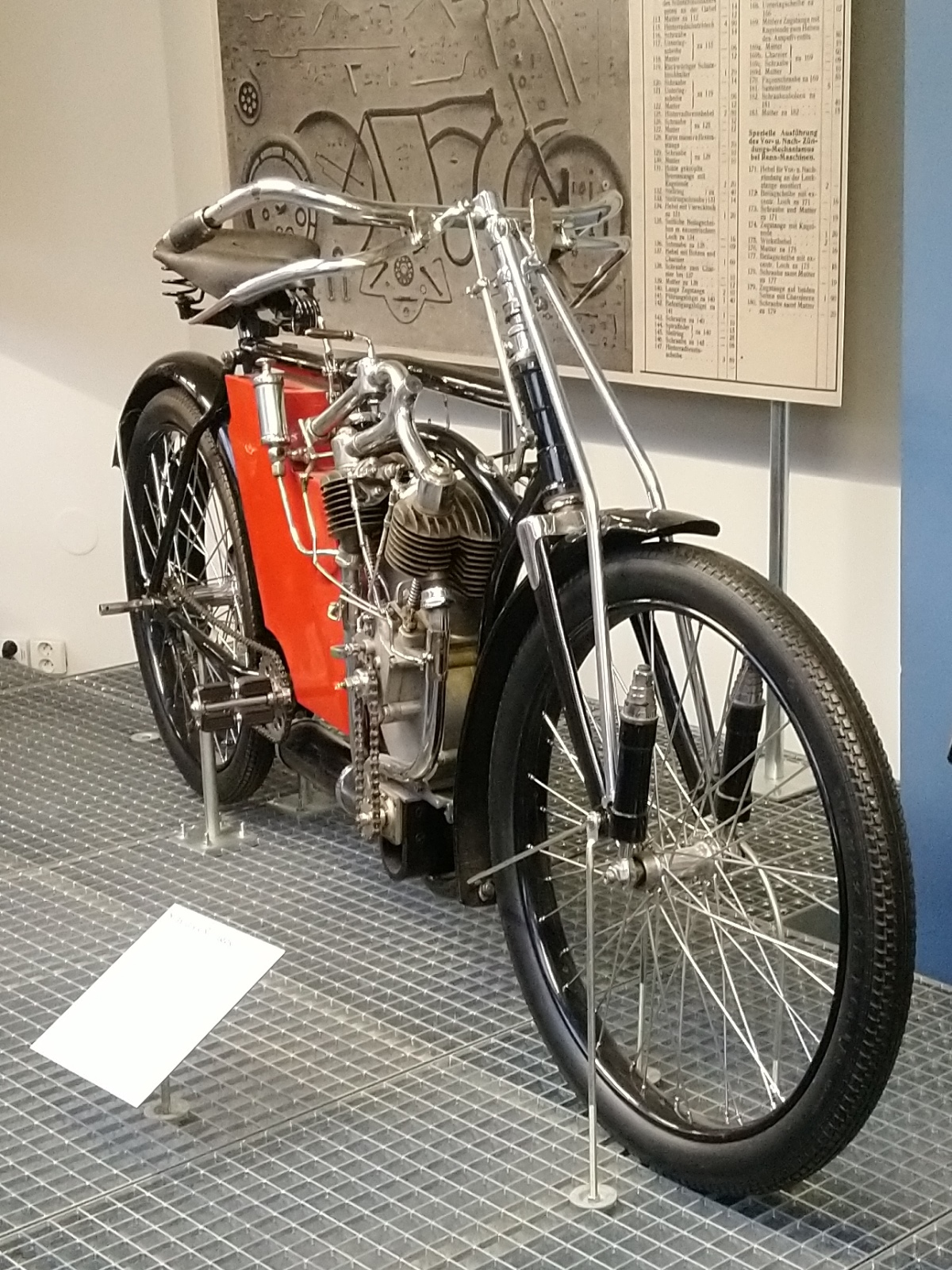 Racing motorcycle Slávia CCR, produced by Laurin&Klement, Mladá Boleslav, 1905. 812 ccm, 3,7 kW (5 HP), max. 85 km/h.